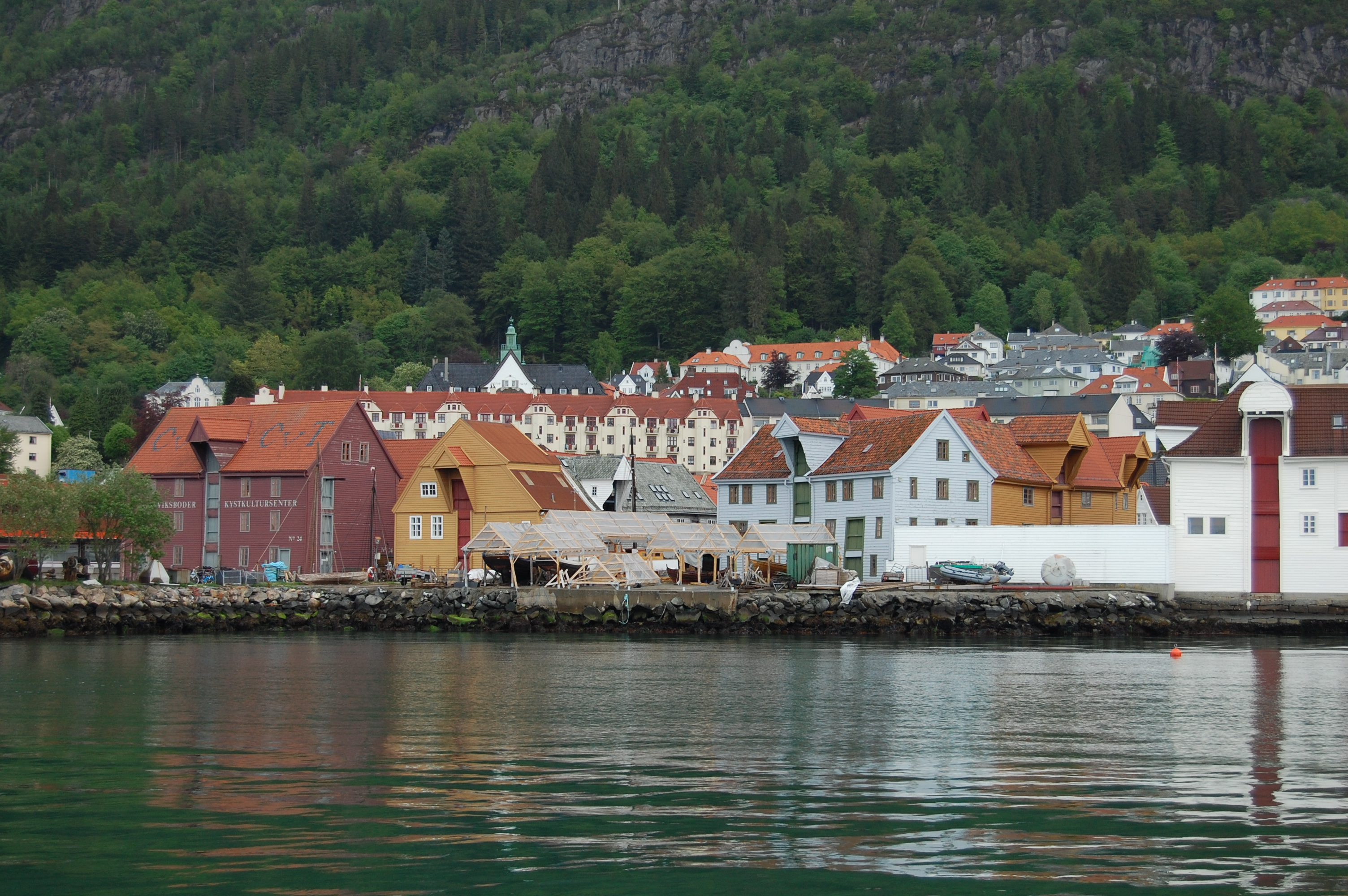 Sandviksboder 15-24, Bergen, Norway